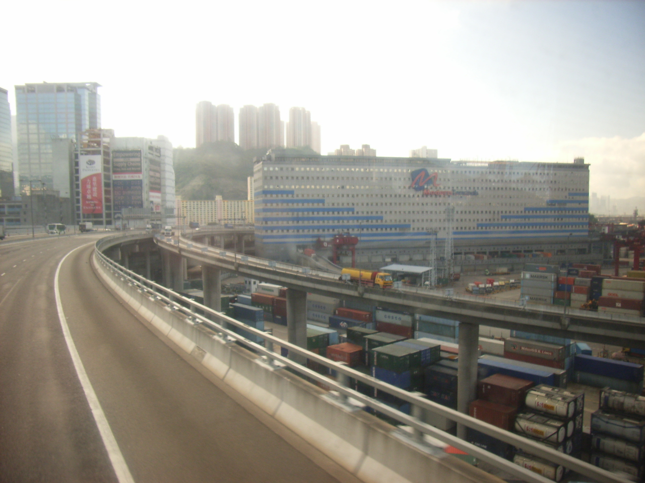 Tsing Kwai Highway 青葵公路(北段). by Green fish